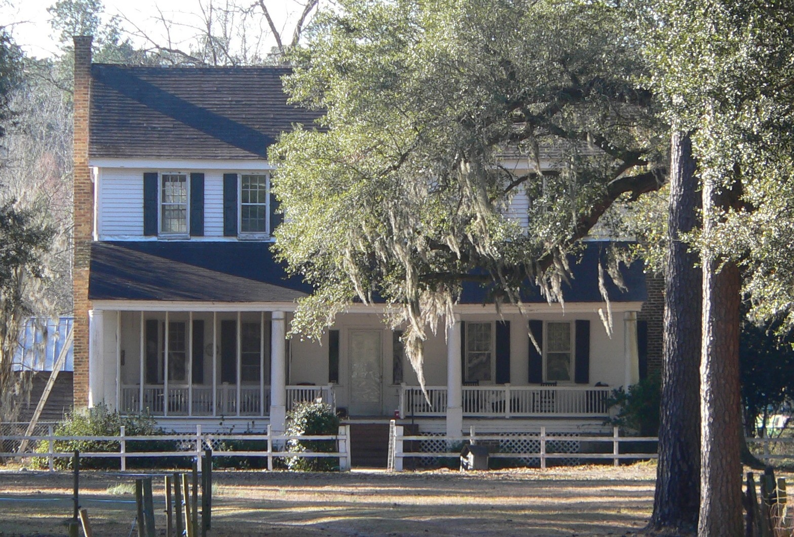 John Calvin Wilson house, located on south side of South Carolina Highway 512 about 3.7 miles northwest of its junction with South Carolina Highway 261. View is from Highway 512.